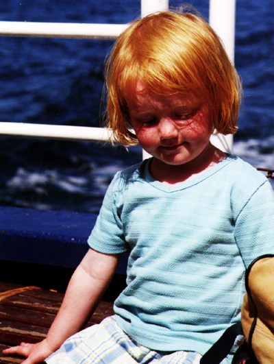 Redheaded girl. on a ferry to great blasket island off the west coast of ireland